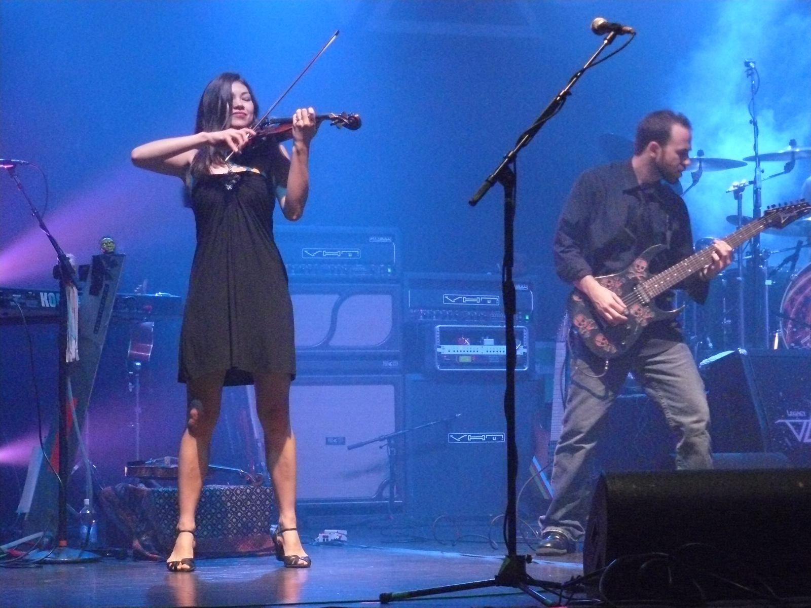 Ann Marie Calhoun appearing with Steve Vai in Amherst, New York.